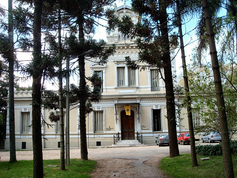 Museo Nacional de Antropologia, Casa Quinta Mendilaharsu, Paso de las Duranas, Montevideo, uruguay.